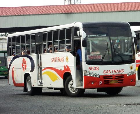 Santrans in EDSA, Manila